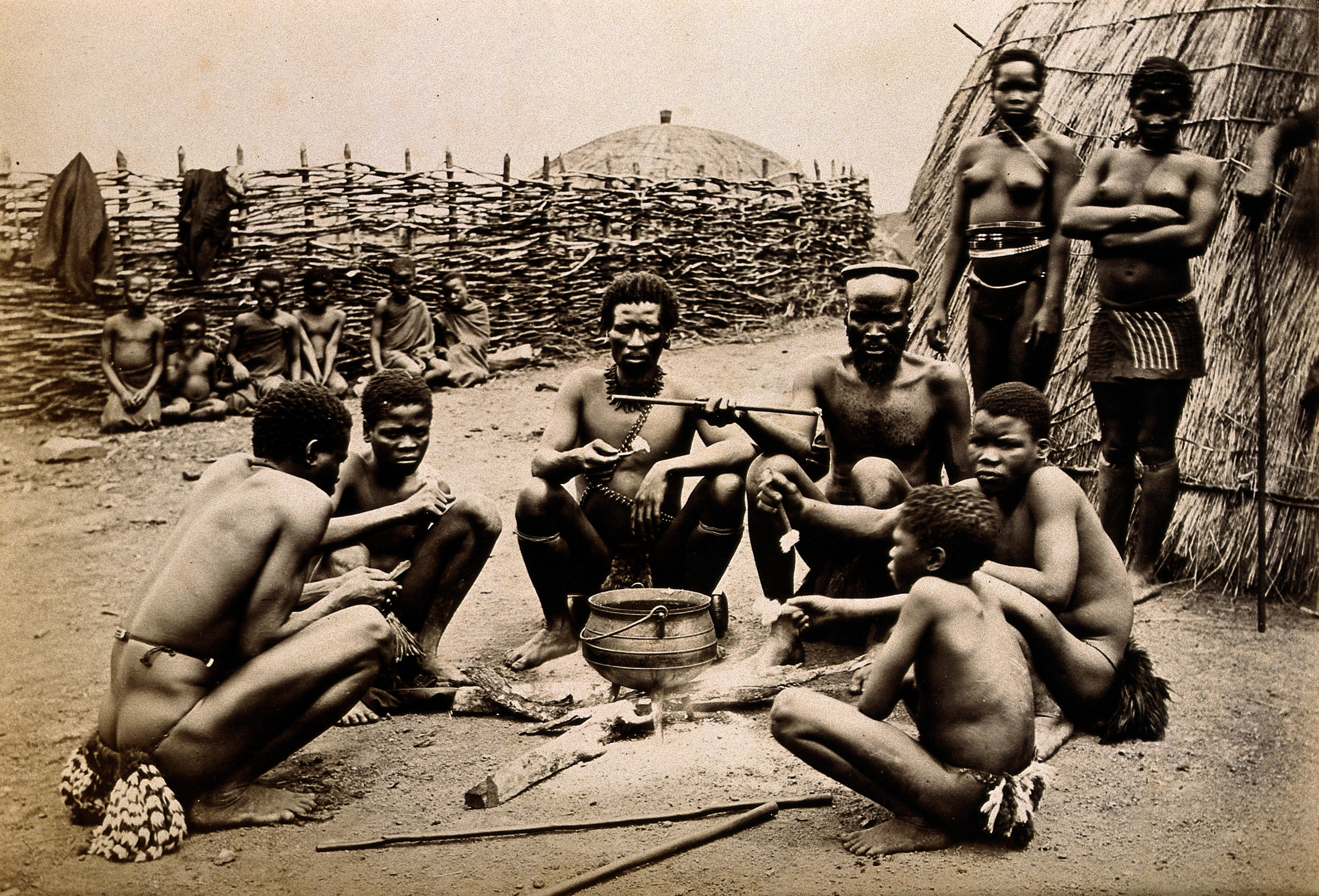 Africa: Men of the Hlubi tribe eating. Albumen print. Iconographic Collections According to Marc Epprecht (in "Welcome to Greater Edendale"), Zwartkop / Zwaartkops / Mbube (hill) was demarcated as a native location in 1848 and is situated west of Pietermaritzburg. Today it is known as Vulindlela, not to be confused with another village by that name situated closer to the coast.